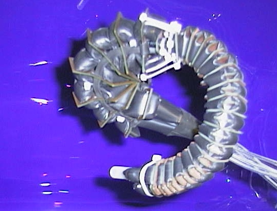 Trunk of K.I.T. - Every 3 fluid actuators are arranged concentrically around a central Punk in 120 ° -Distance and form a functional unit.